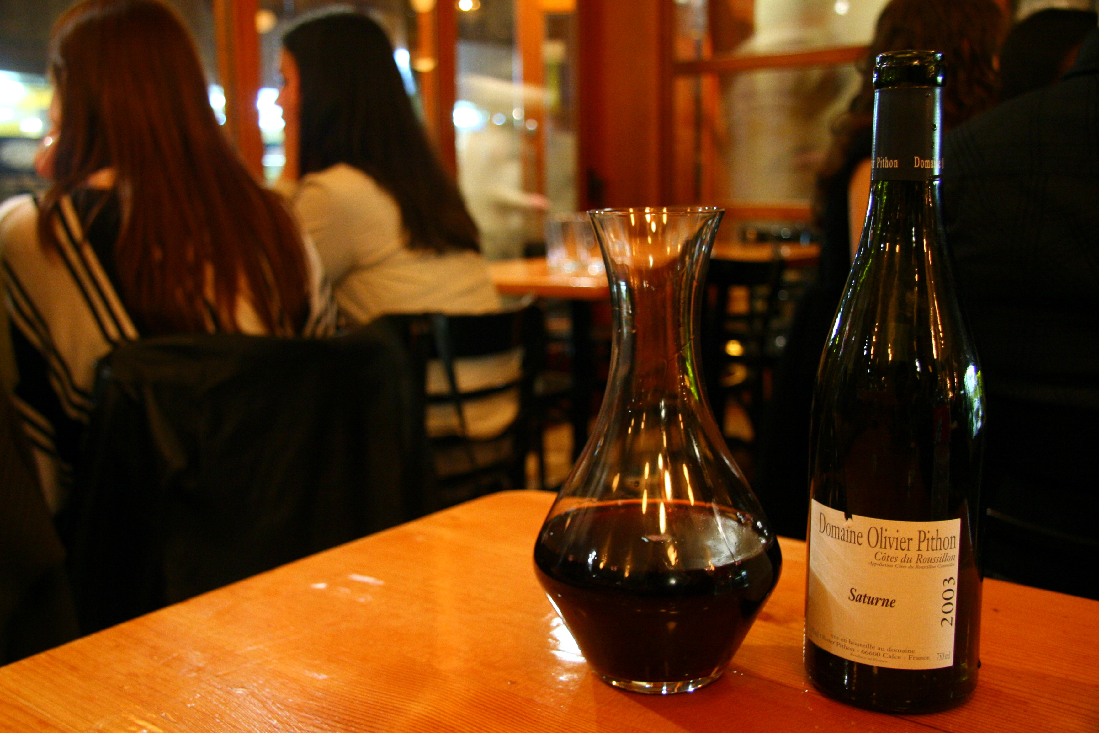 A bottle of French red wine from the AOC Côtes du Roussillon of the Languedoc being decanted. The wine is a blend composition of Grenache, Carignan & Syrah made from organically farmed grapes.